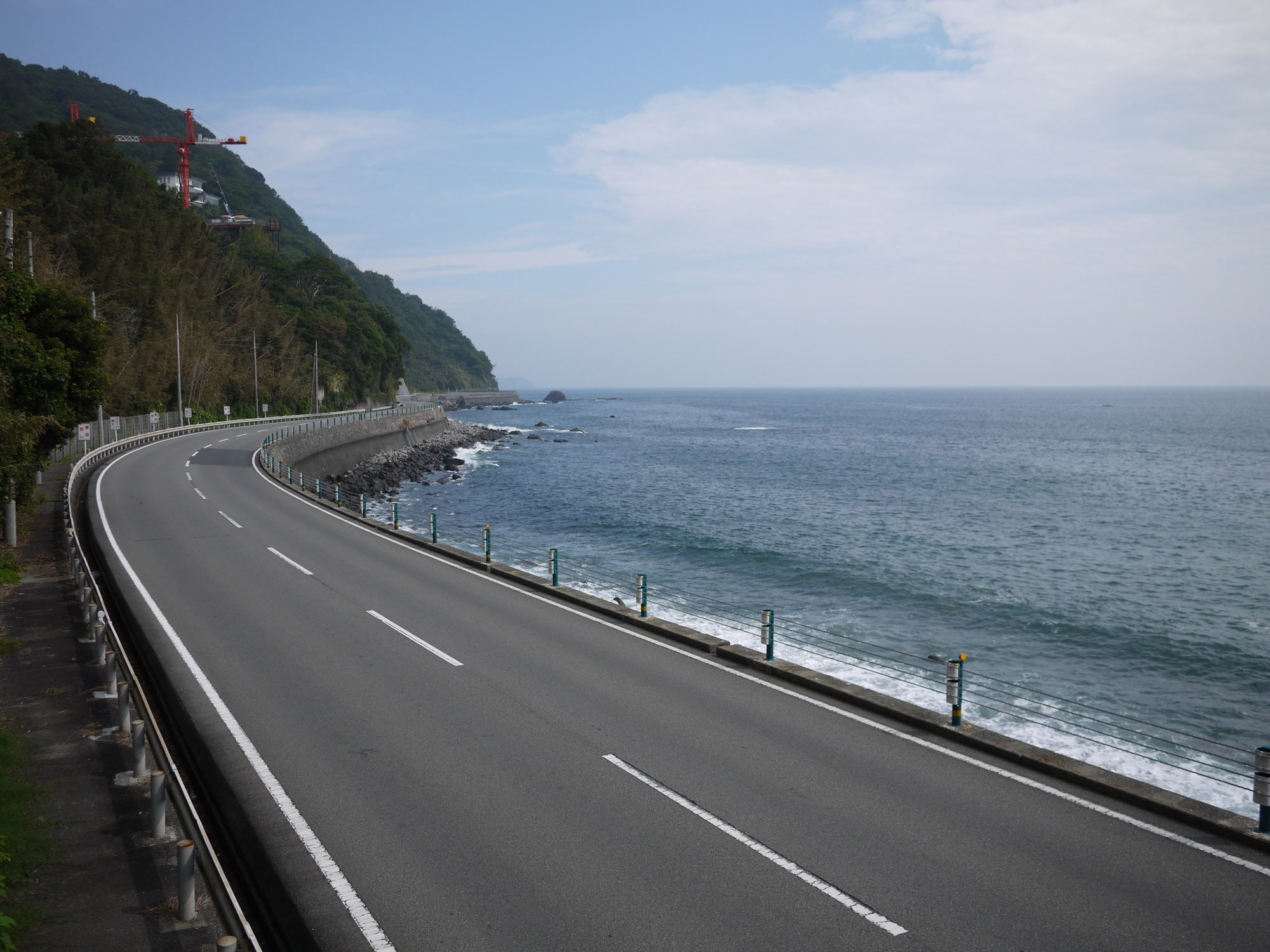 Atami Beach Line in Atami, Shizuoka Prefecture, Japan.